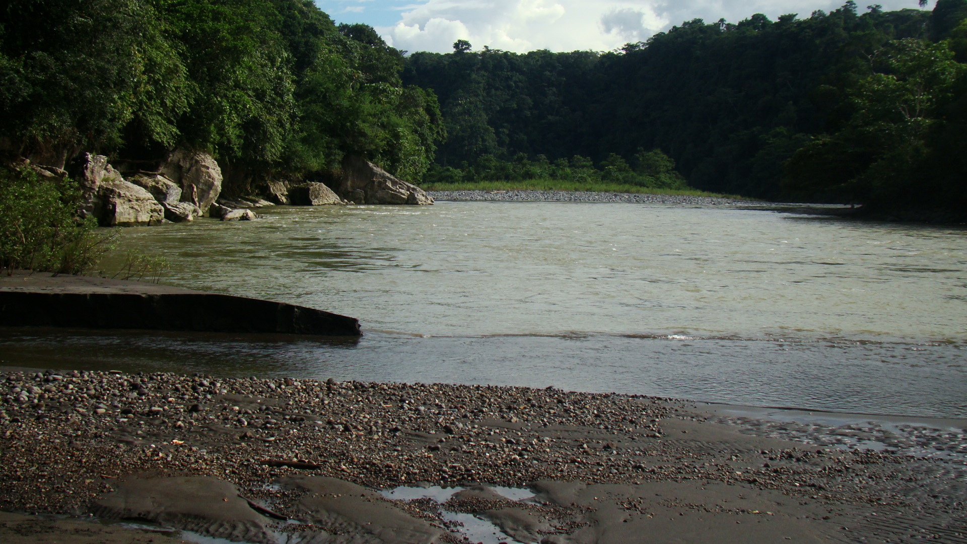 The beach near-by the Caverna de las Cascadas on the Rio Upano, Logroño, Ecuador